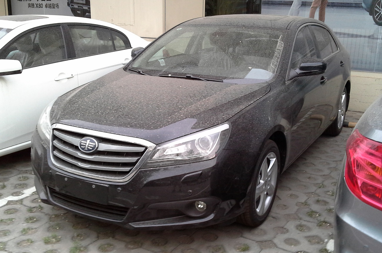 Besturn B90 facelift photographed in Beijing, China.